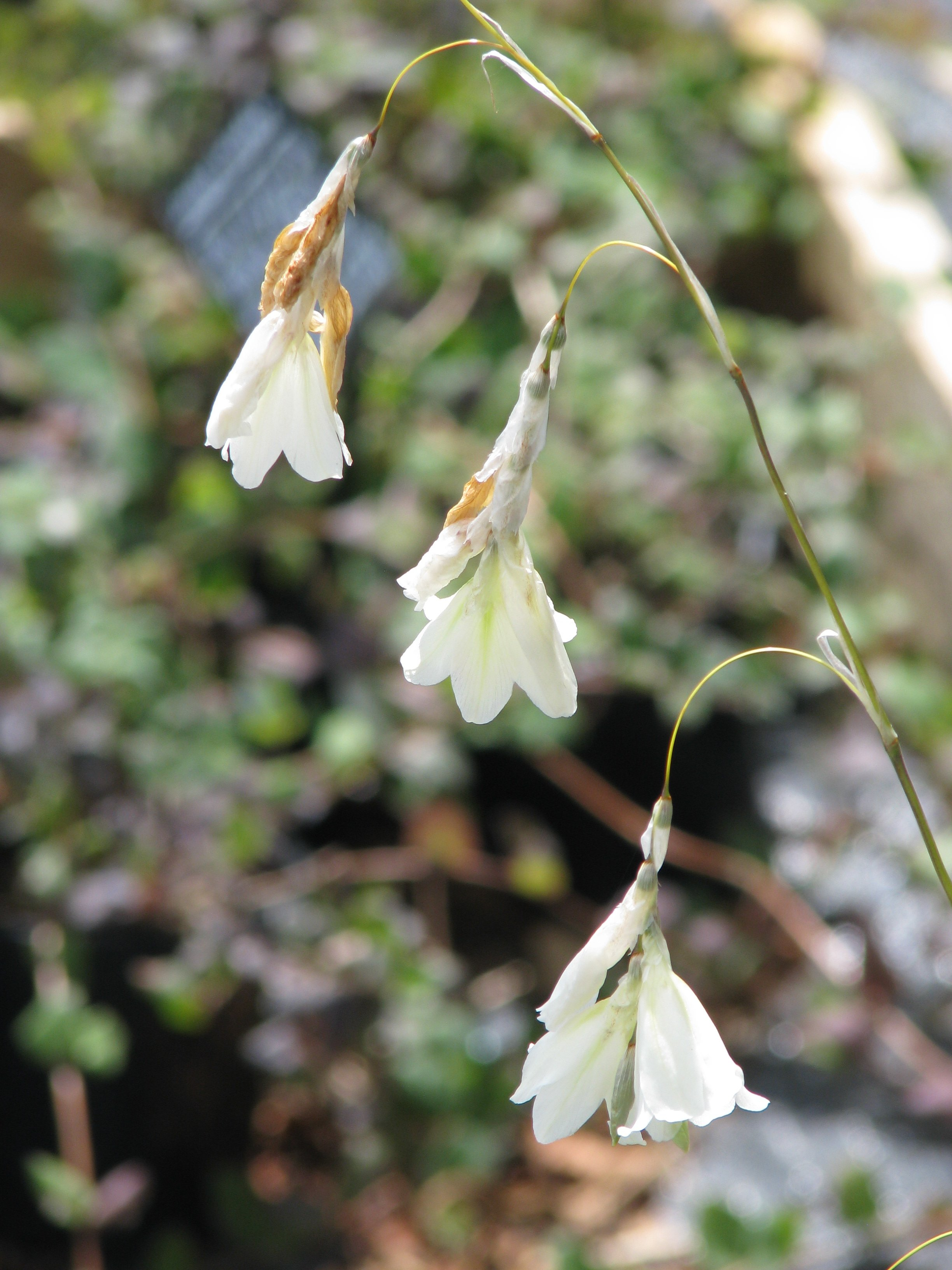 Dierama argyreum